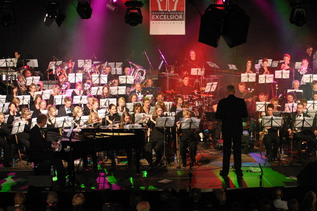 Excelsior 100 anniversary concert; music association Excelsior from Winterswijk, Netherlands.